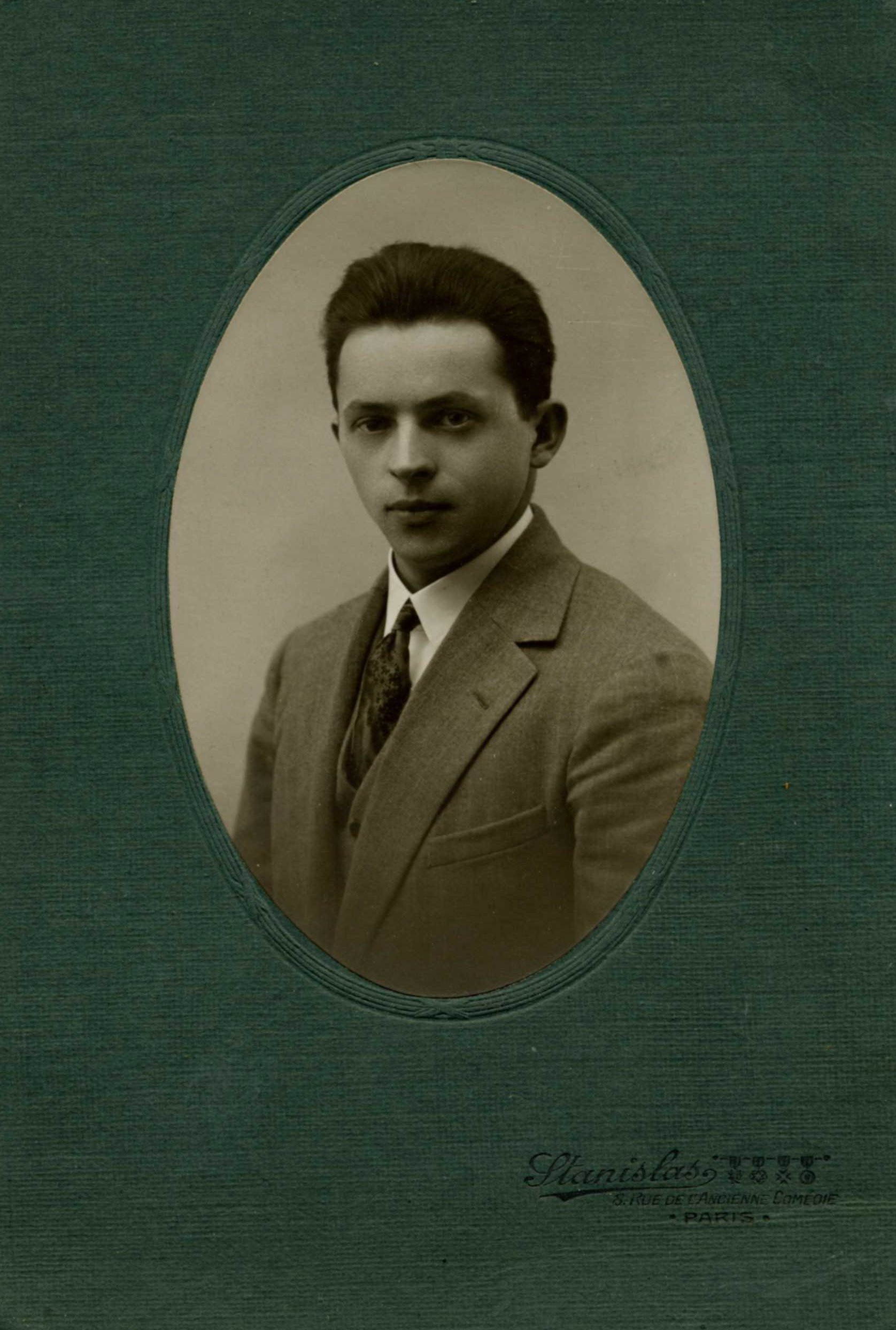 Adam Vetulani